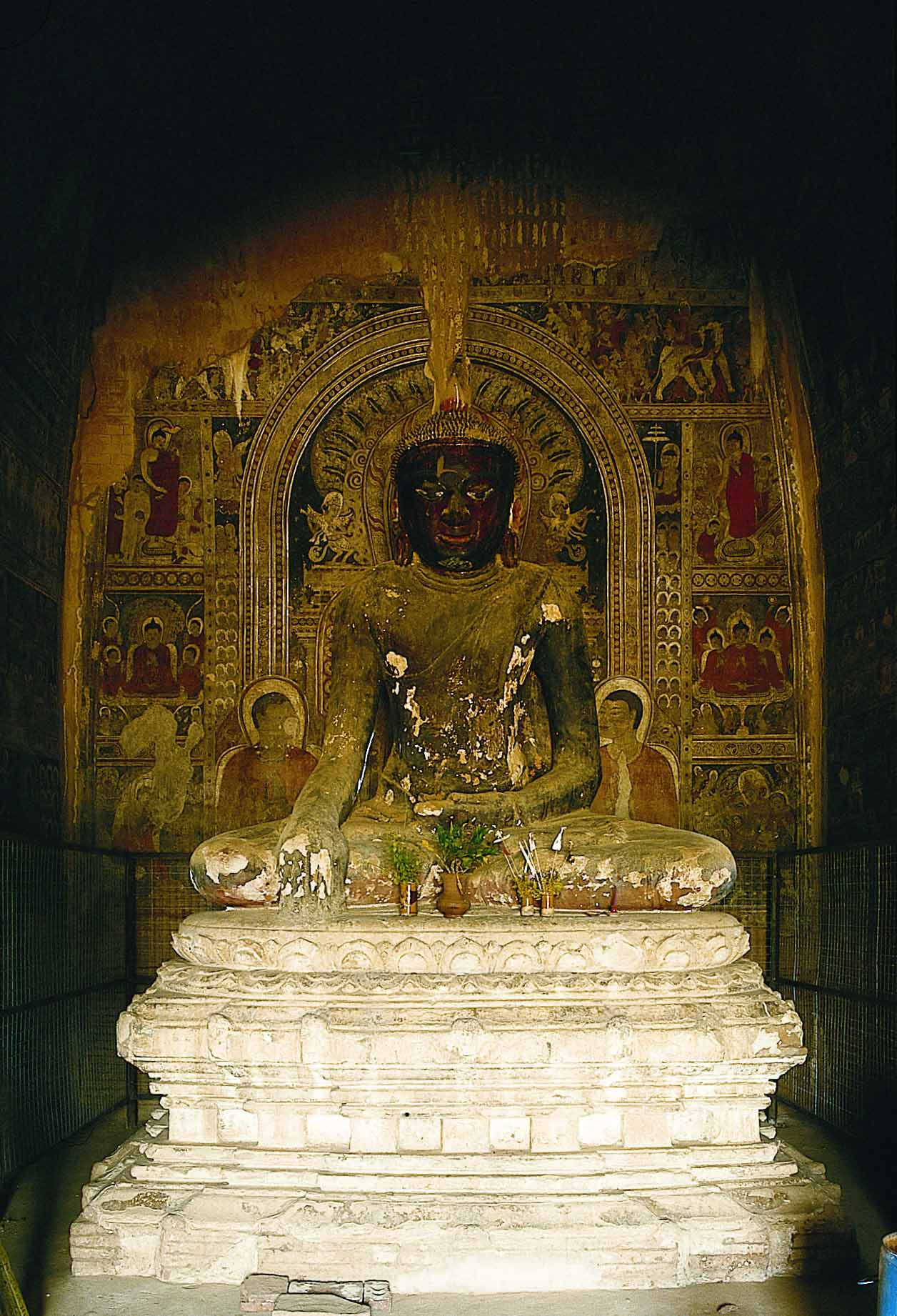 Bagan, Loka-hteik-pan, inside image, Photo Joachim K. Bautze (1996)